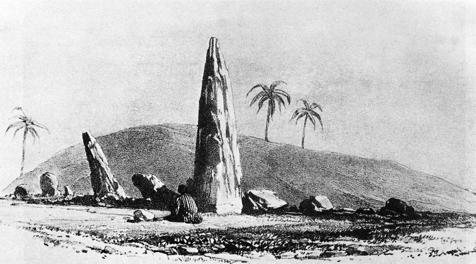 A hand-drawn sketch of the Mzoura cromlech by Sir Arthur Coppel de Brooke, published in his book Sketches in Spain and Morocco, in 1831